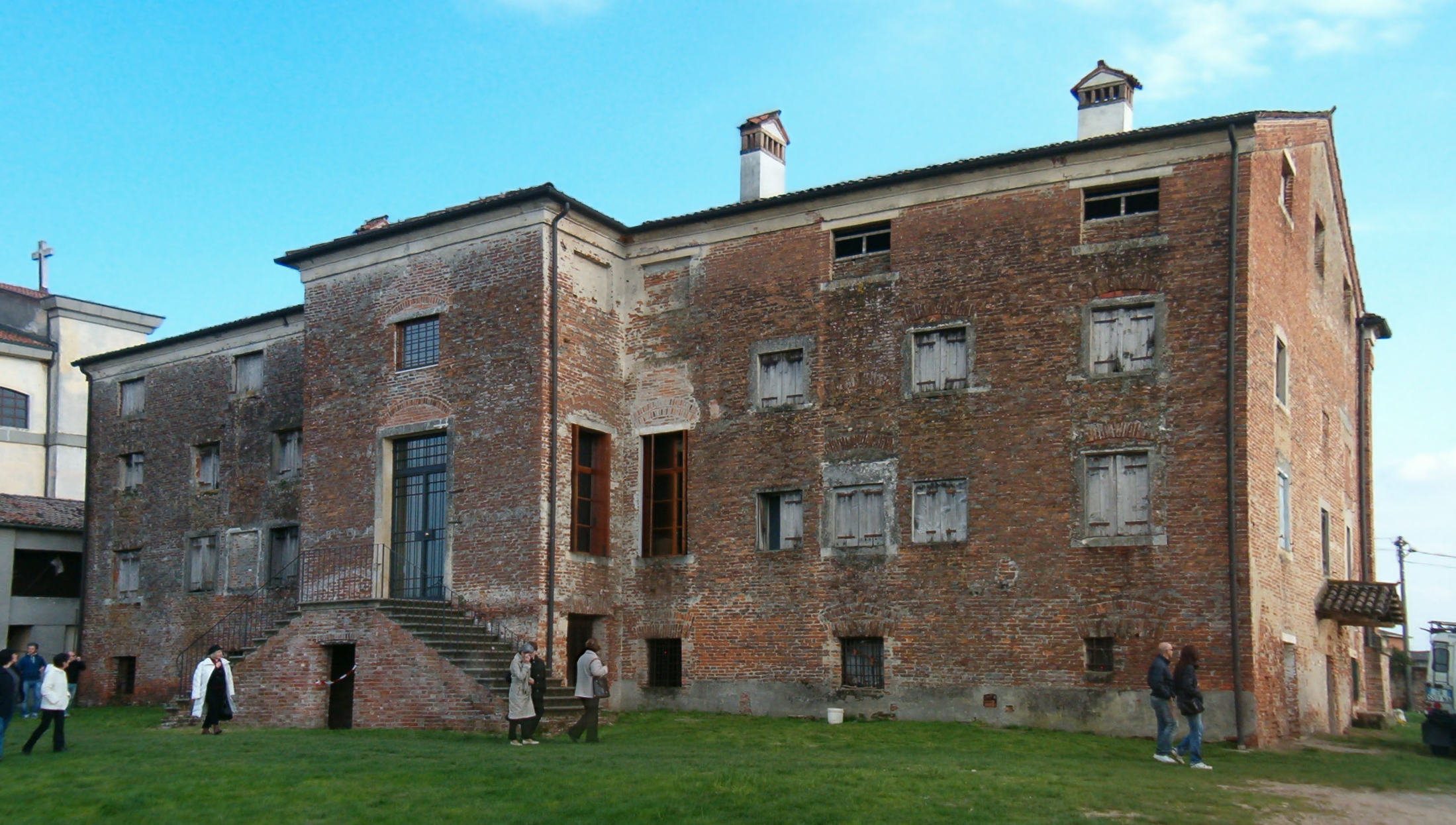 Villa Gazzotti in Bertesina, Vicenza, designed by Andrea Palladio. During FAI (italian heritage fund) special opening day.